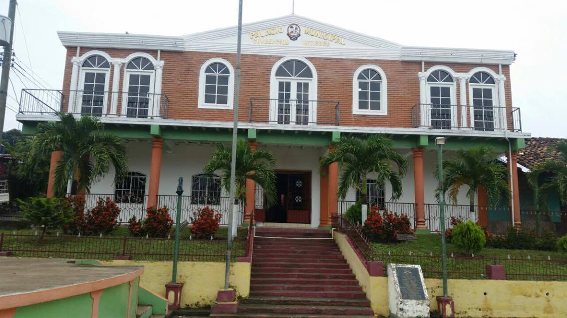 Palacio Municipal Concepción Intibuca